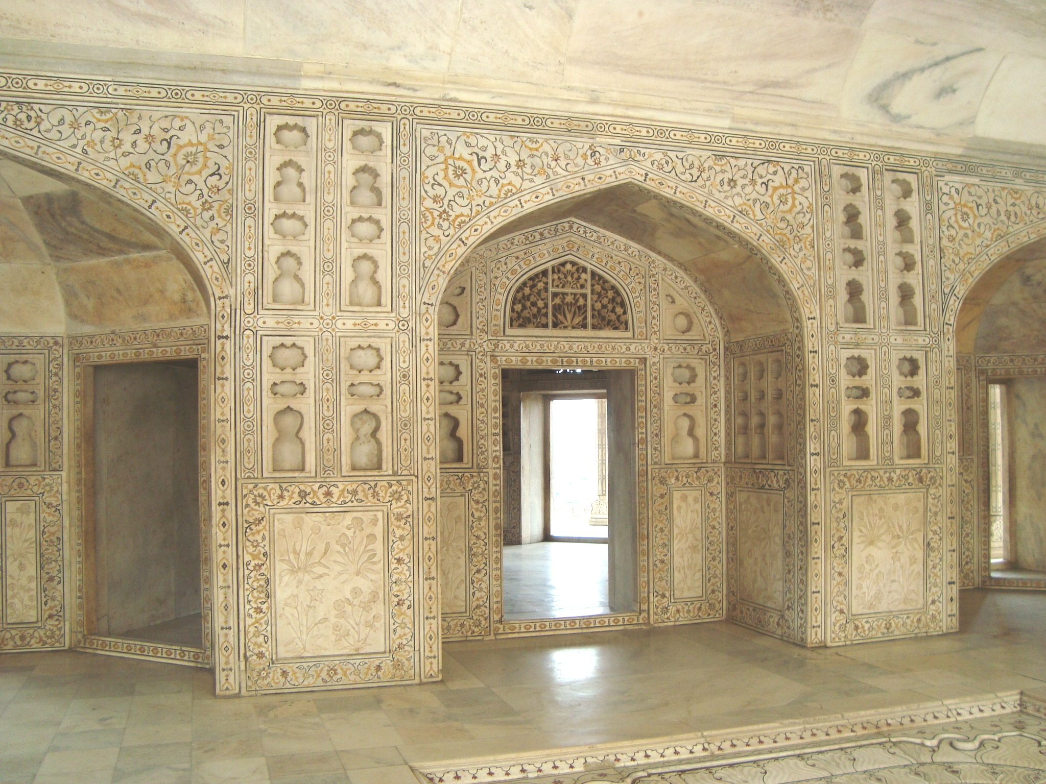 Musamman Burj of Agra Fort